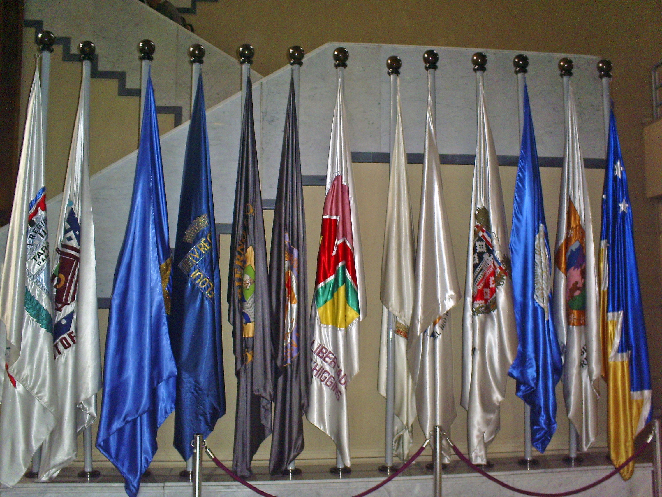 Gallery of the flags of the thirteen first Chilean regions (I to XII Regions and Metropolitan Region), in the access hall of National Congress of Chile, in Valparaíso